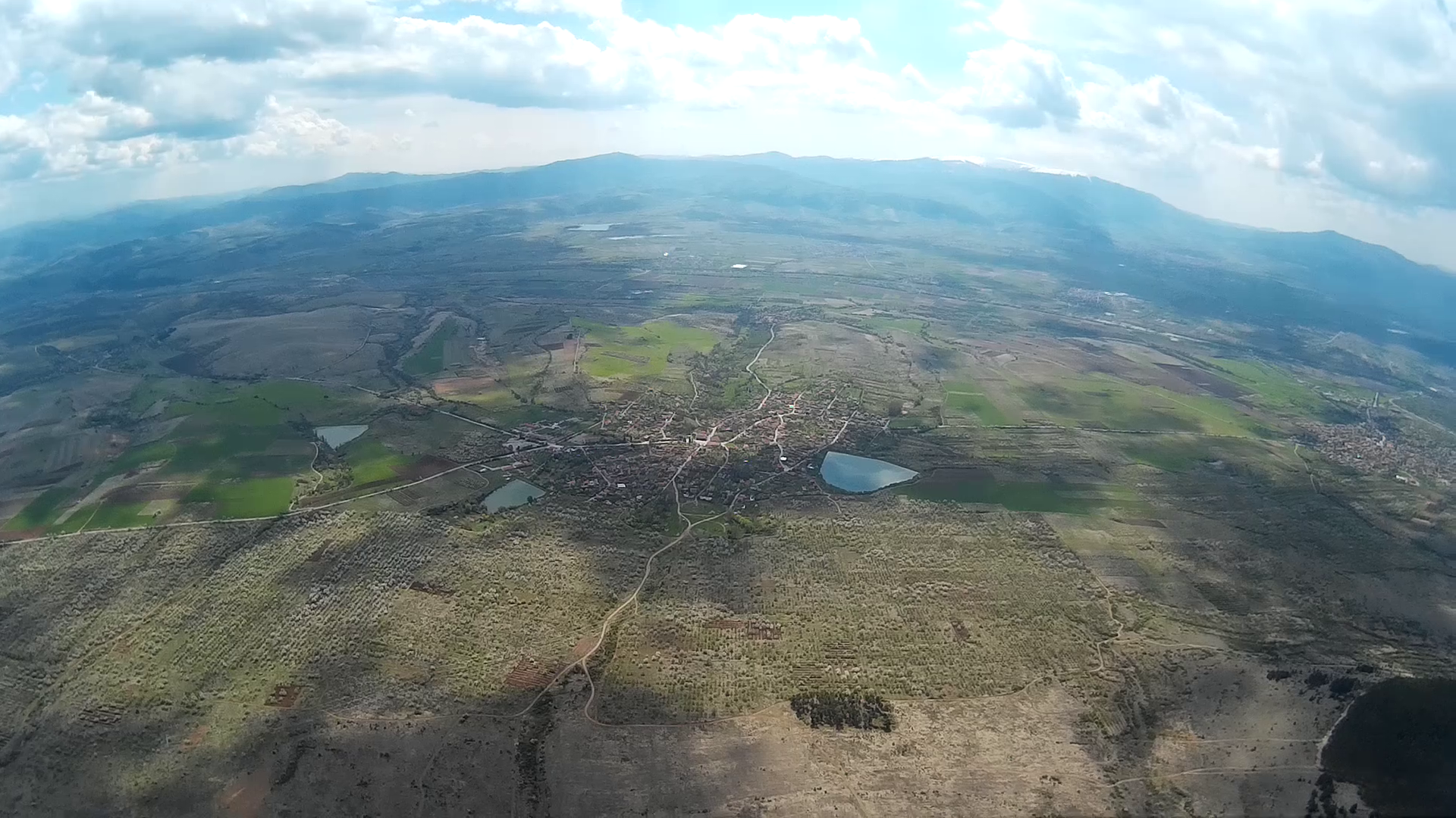 Aerial photography of Gorna Grashtitsa village in Bulgaria